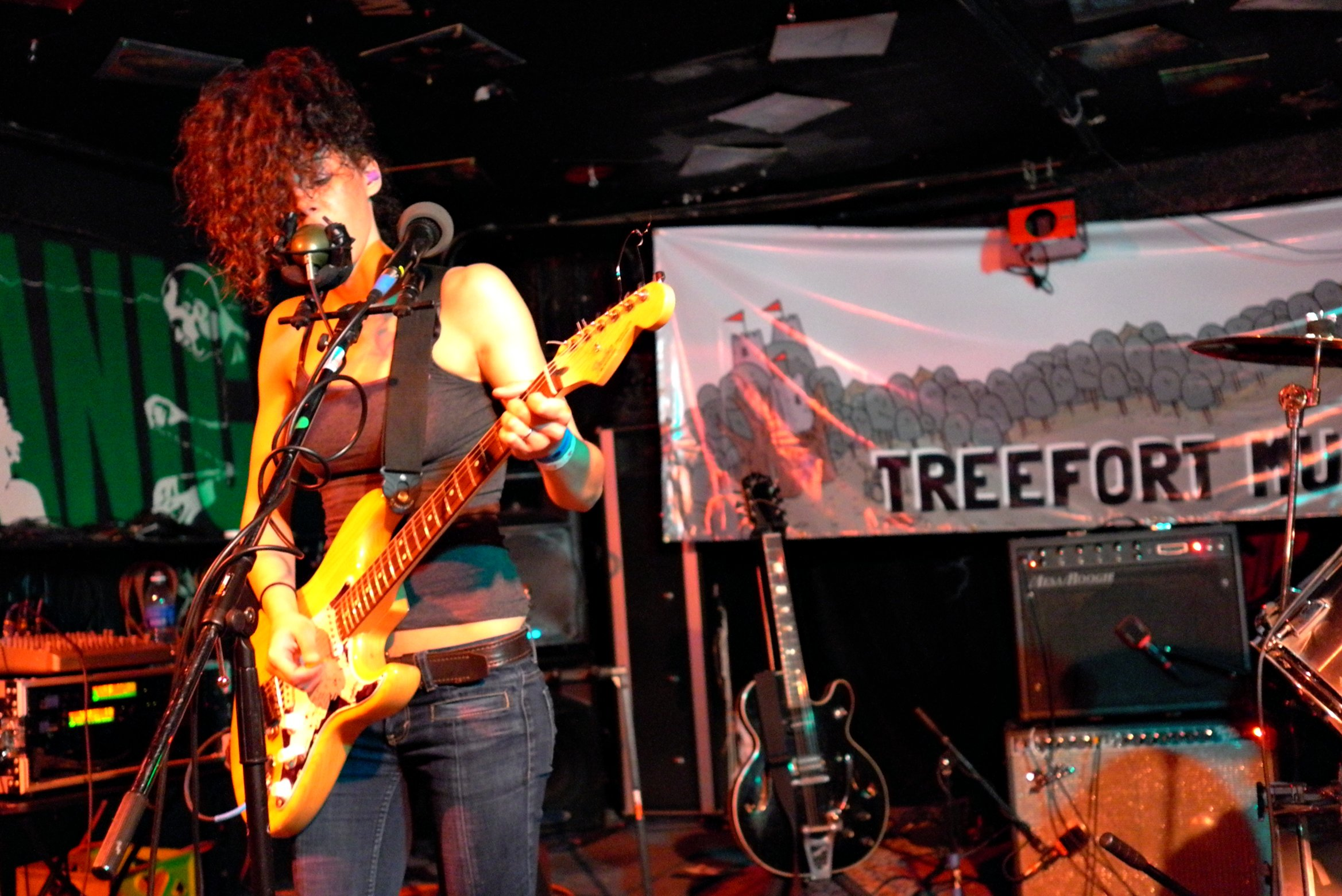 Mr. Gnome of Cleveland, Ohio performs at the Red Room during Boise, Idaho's inaugural Treefort Music Fest.